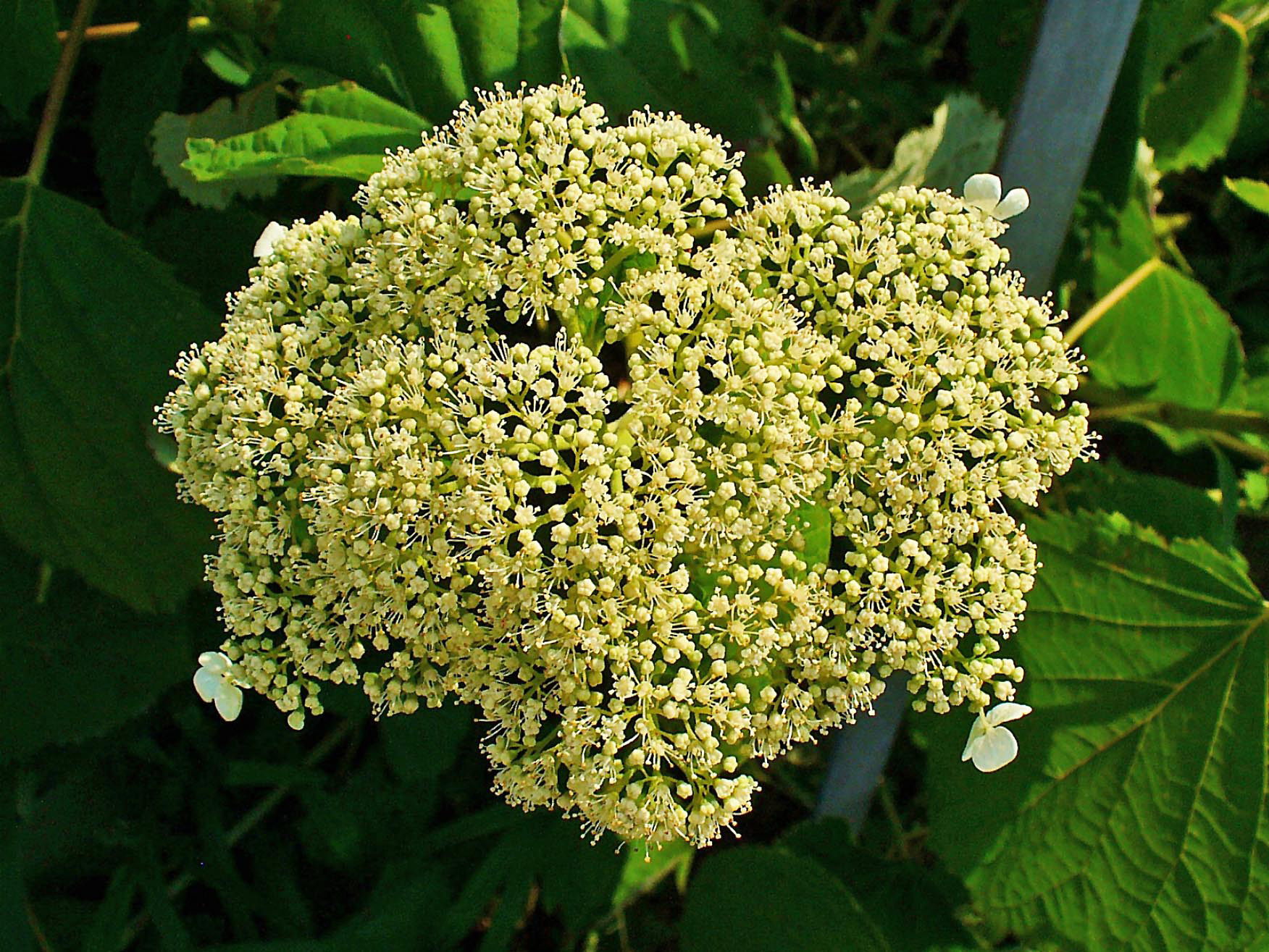 Hydrangea arborescens, Hydrangeaceae, Smooth Hydrangea, inflorescence. The fresh, underground parts are used in homeopathy as remedy: Hydrangea arborescens (Hydrang.)